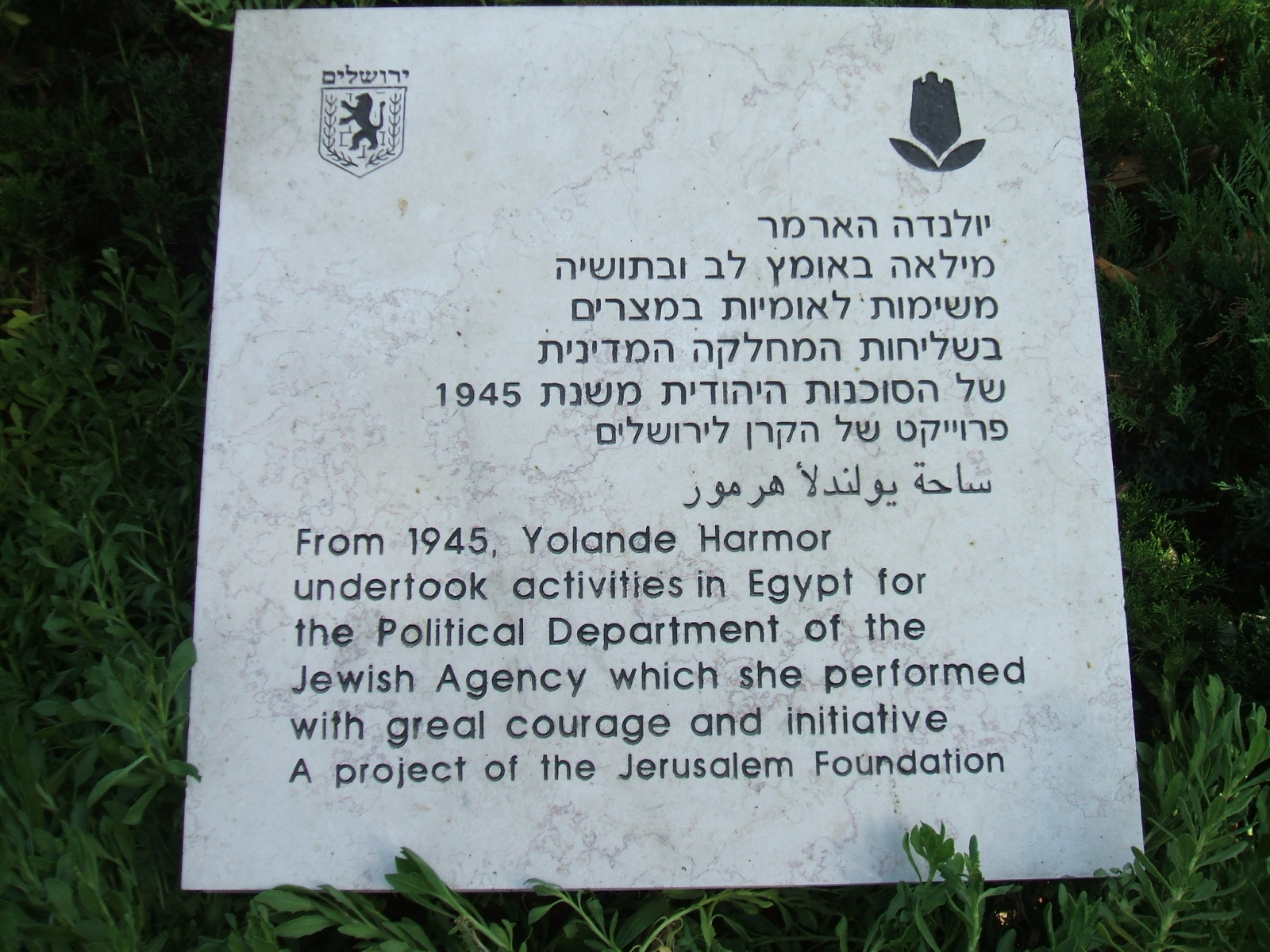 Memorial for Yolande Harmor (Jewish spy in Egypt) in Katamon, Jerusalem